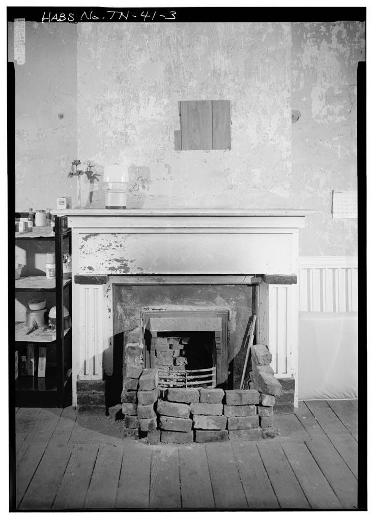 Fireplace inside the Blair's Ferry Storehouse (which was then in use as a grocery store) in Loudon, Tennessee, USA.